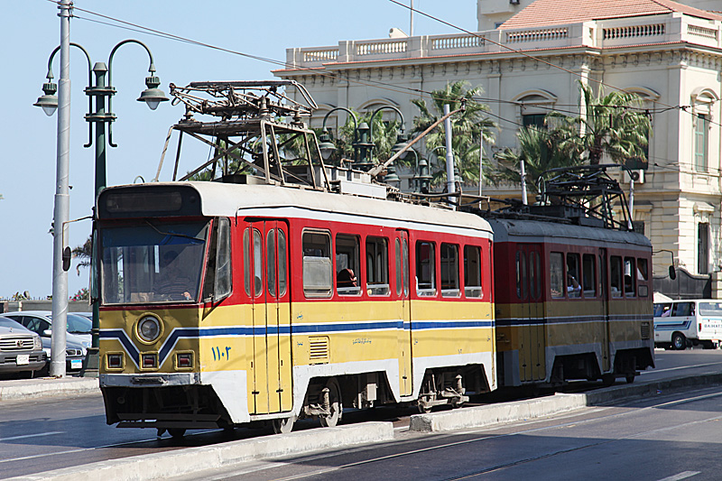 Yellow-line tram, Sa'ad Zaghlul square, Alexandria, Egypt